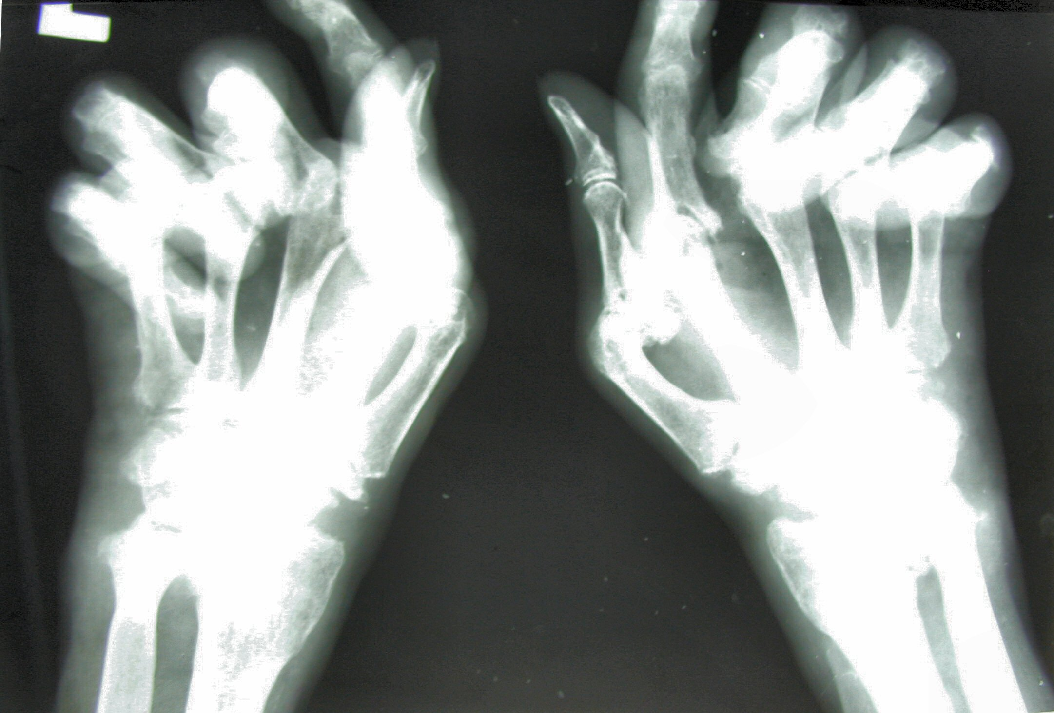 Rheumatoid arthritis - X-ray image of the hand - large changes in destructive arthritis, contractures, deformity, ossification.Arthritis mutilans